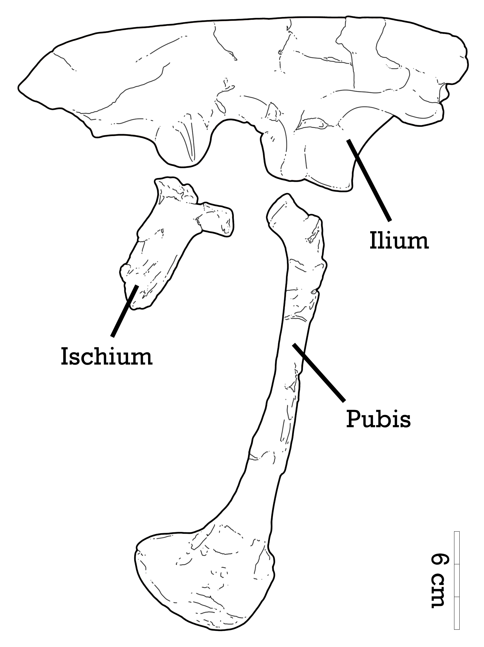 Schematic diagram of the right pelvis in Adasaurus mongoliensis, based on the holotype IGM 100/20. Mainly based on Turner et al. 2012 and Mickey Mortimer.[1][2] ______________________________________________________________________________________________________________